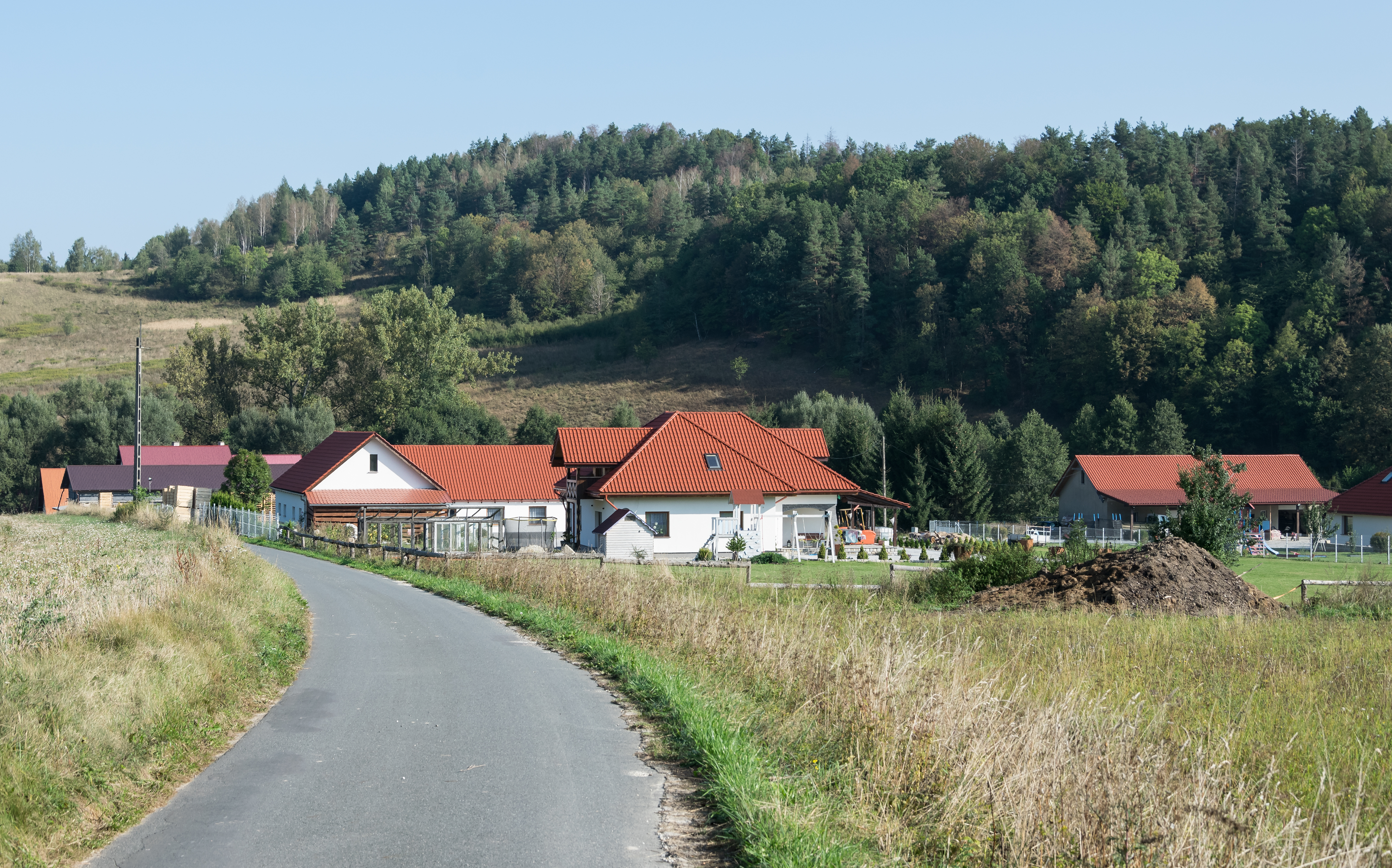 Buildings in Romanowo